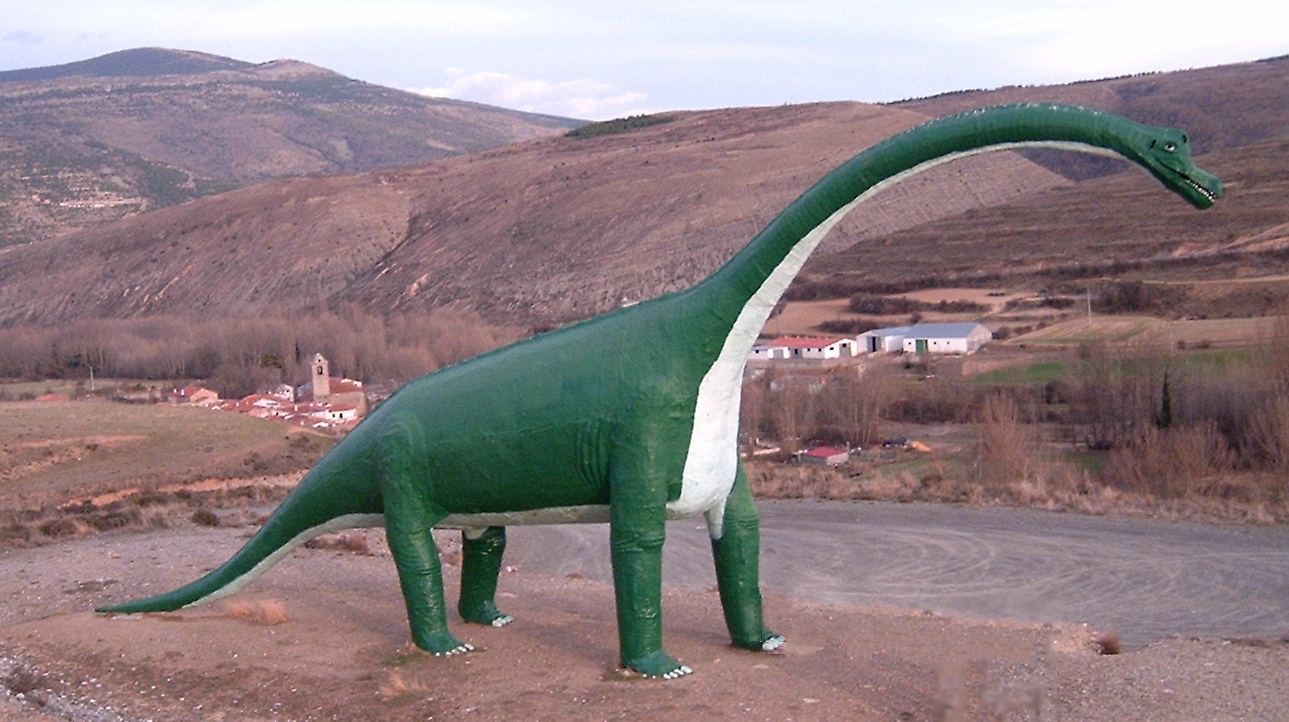 Sculpture of a dinosaur in Villar del Río, Soria, Spain. Parts of the figure's front left leg and the ground before it have been (quite badly) clonned with GIMP in order to remove some people's images